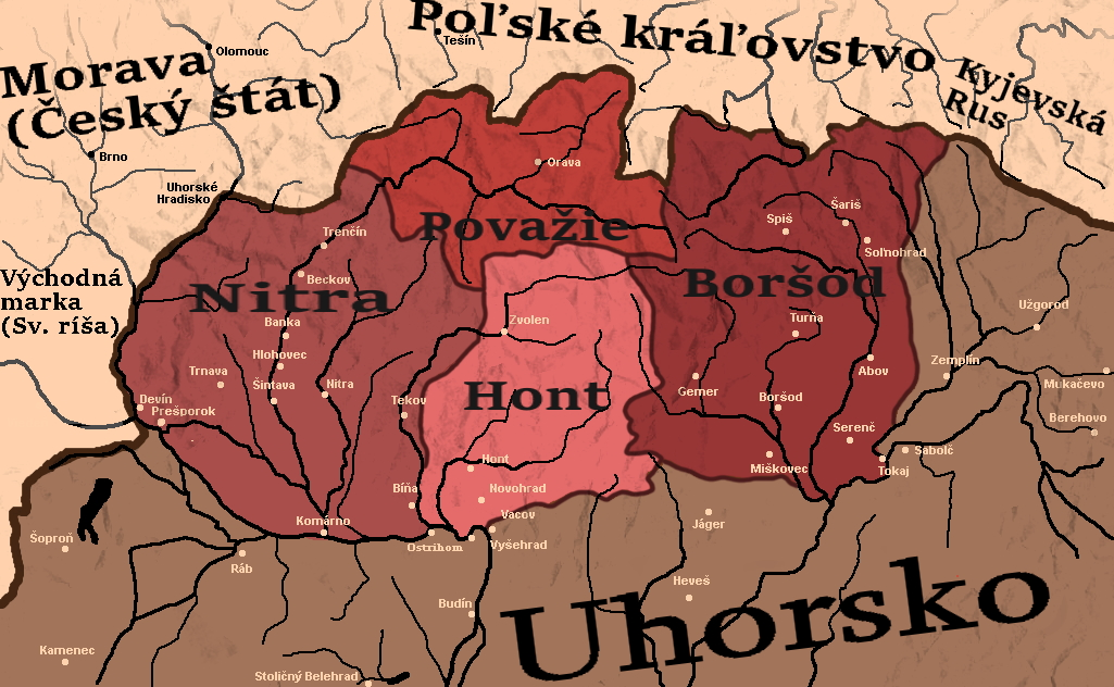 Map of Principality of Nitra as a part od Hungarian kingdom after year 1000, before destroying of title by king Koloman I.